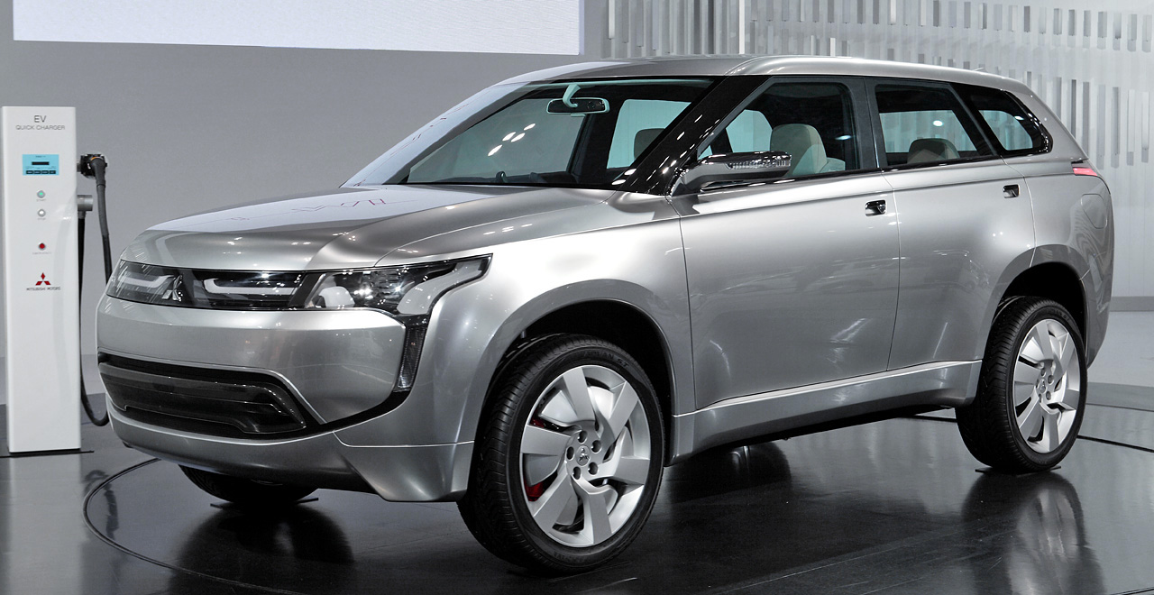 Mitsubishi Concept PX MiEV.